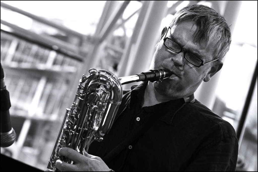 Kevin playing Sax